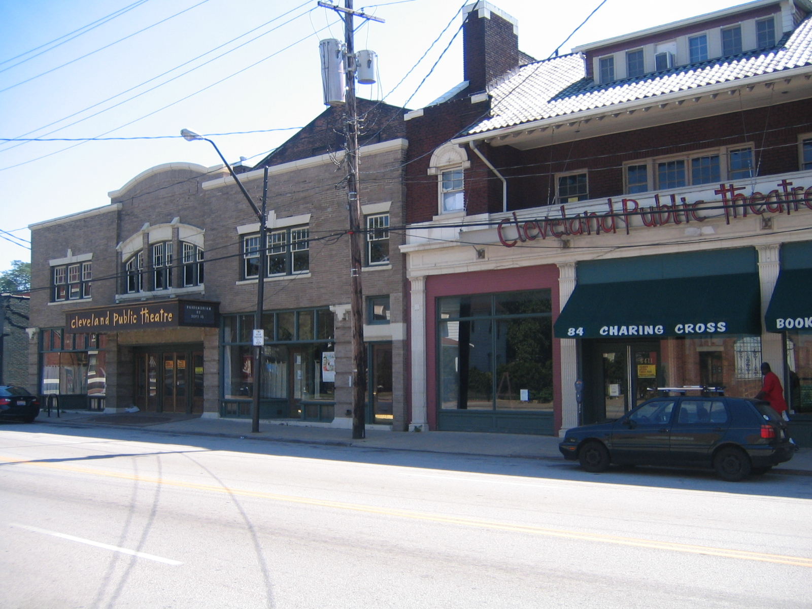 Cleveland Public Theater complex in Gordon Square, Cleveland.